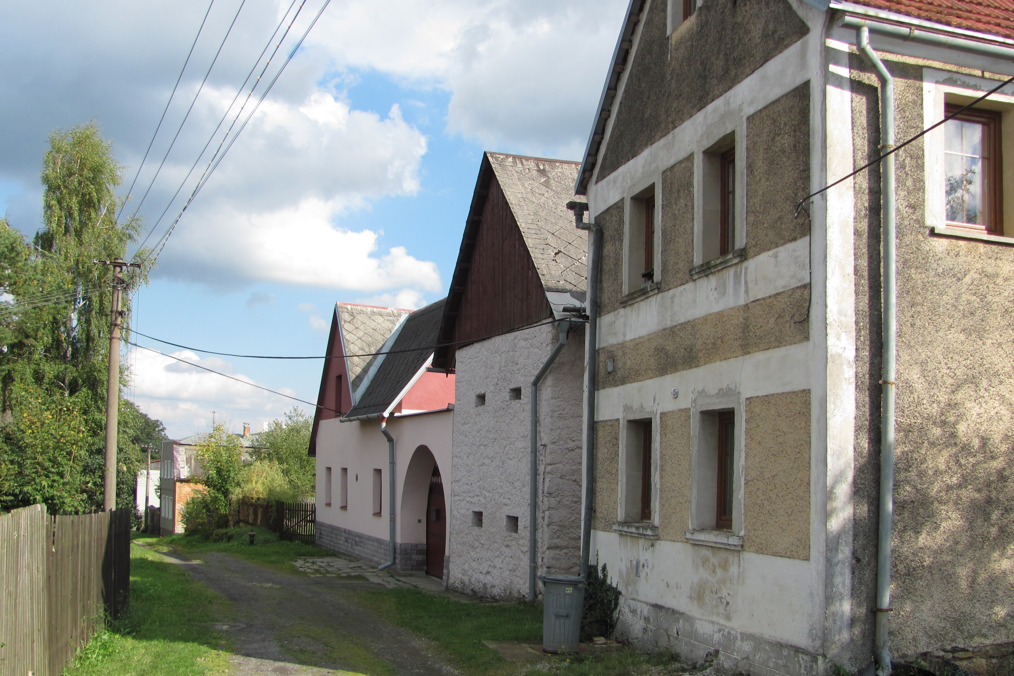 Granary in Lestkov, Tachov District